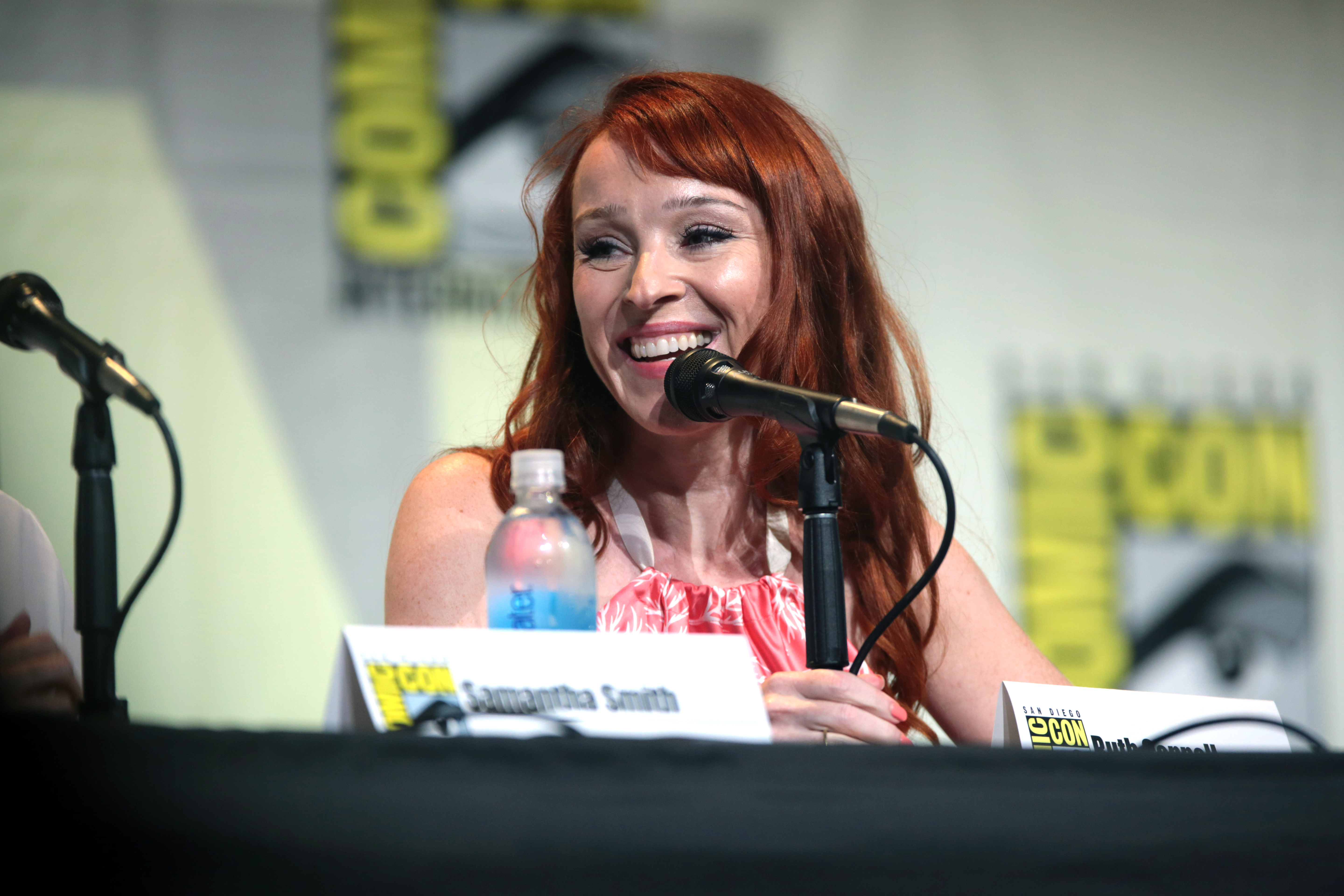 Ruth Connell speaking at the 2016 San Diego Comic Con International, for "Supernatural", at the San Diego Convention Center in San Diego, California.